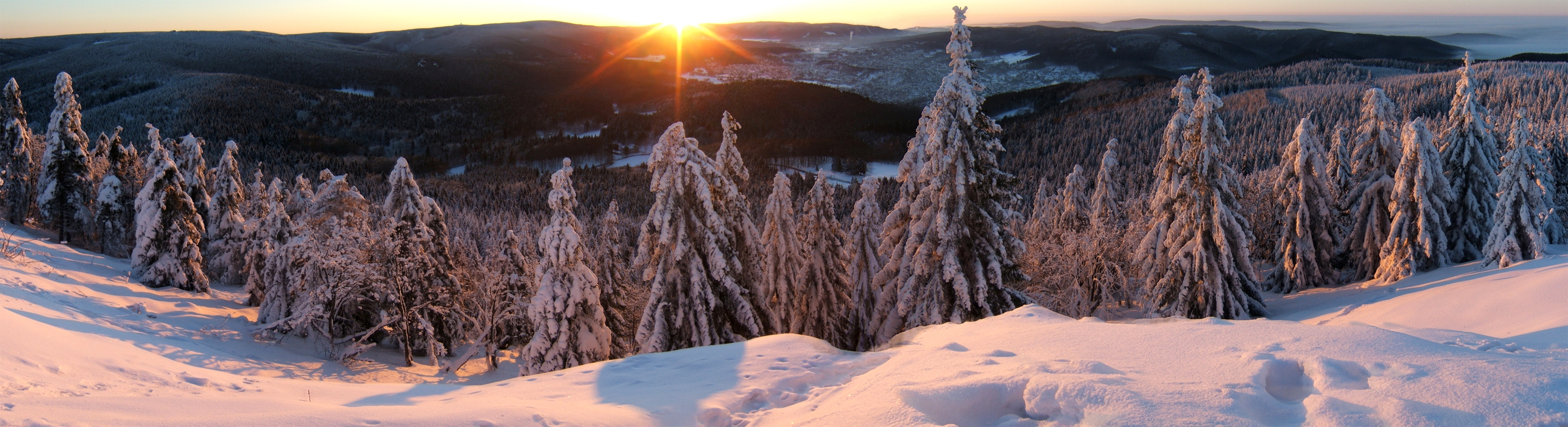 Sunrise on the mountain Ruppberg near Zella-Mehlis (Thuringian Forest, Germany)